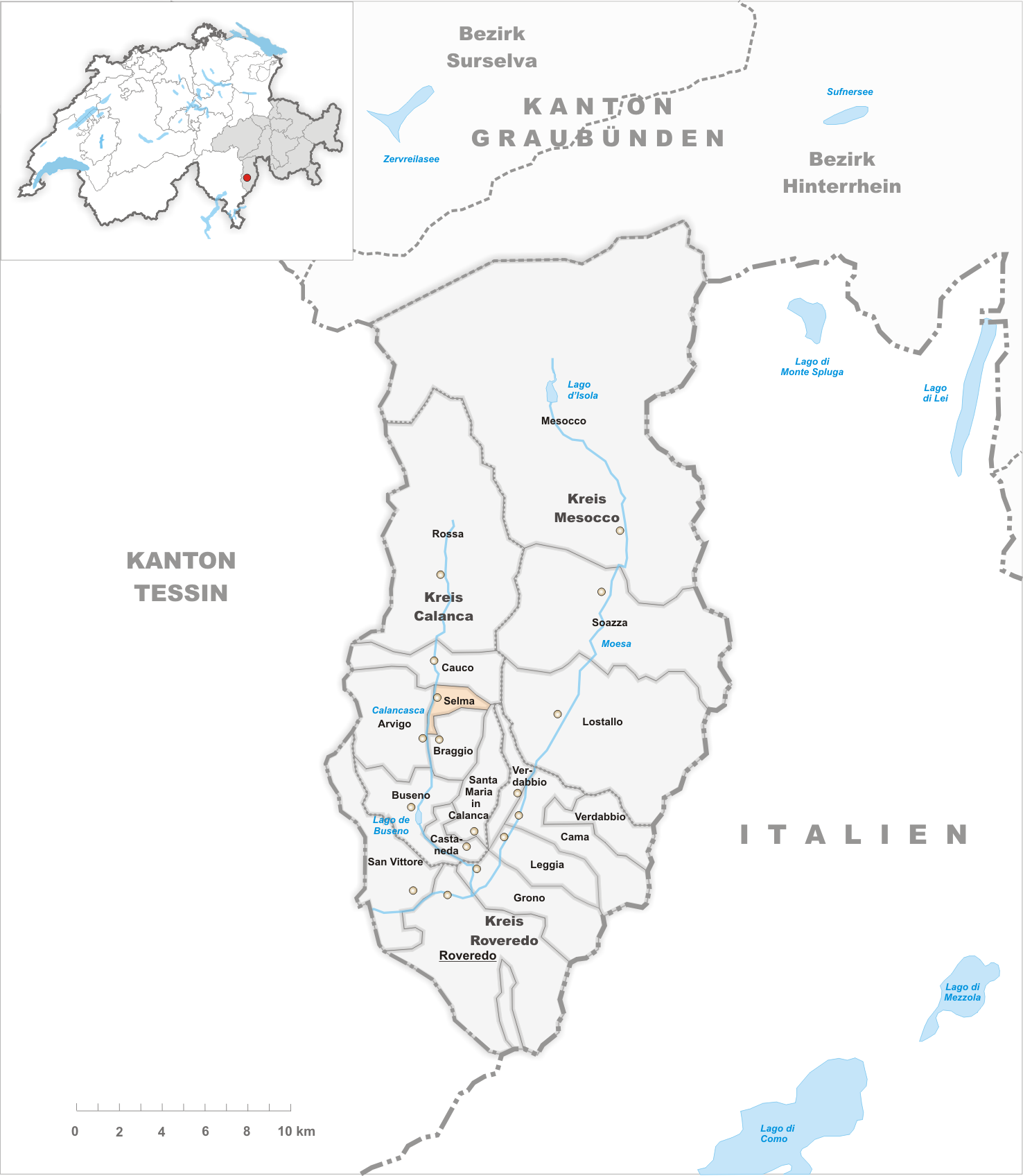 Municipality Selma